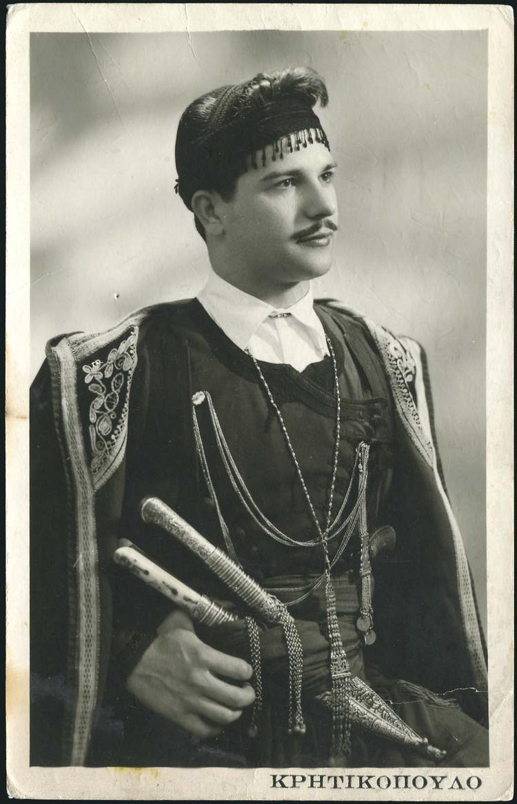 Cretan Greek man. Crete, Greece.